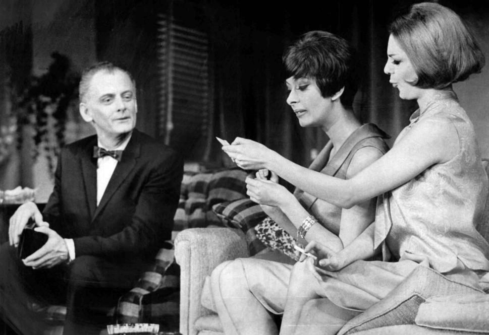 Photo of Art Carney as Felix Ungar and the Pigeon Sisters, played by Monica Evans and Carole Shelley, from the original Broadway production of The Odd Couple.